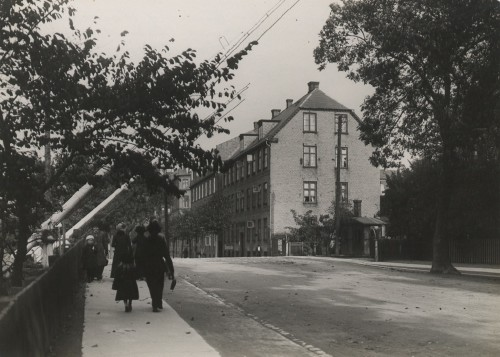 The Railway crossing where the West Line crossed Bÿlowsvej in Frederiksberg, Copenhagen, Denmark